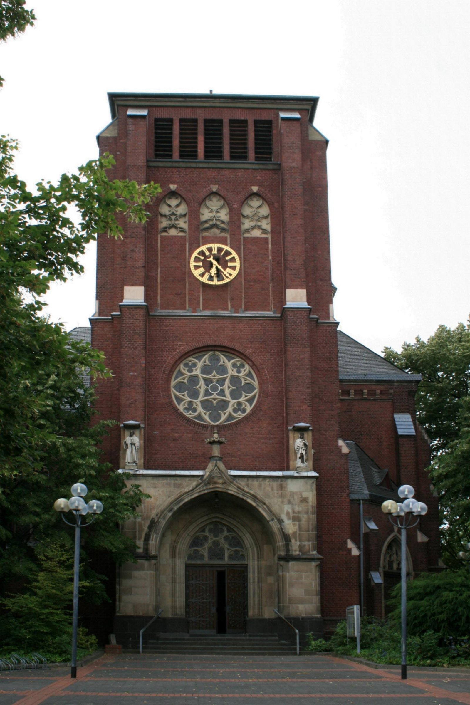 Cultural heritage monument No. St 028 in Mönchengladbach